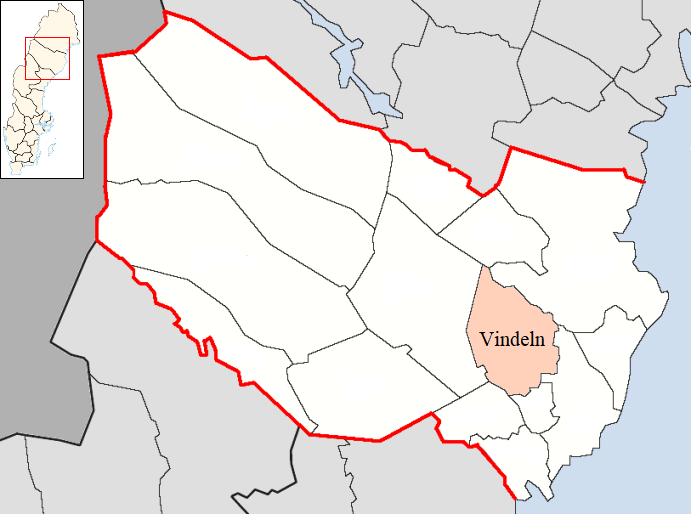 Vindeln Municipality in Västerbotten County Designed by me. Mere outlines are a PD source from